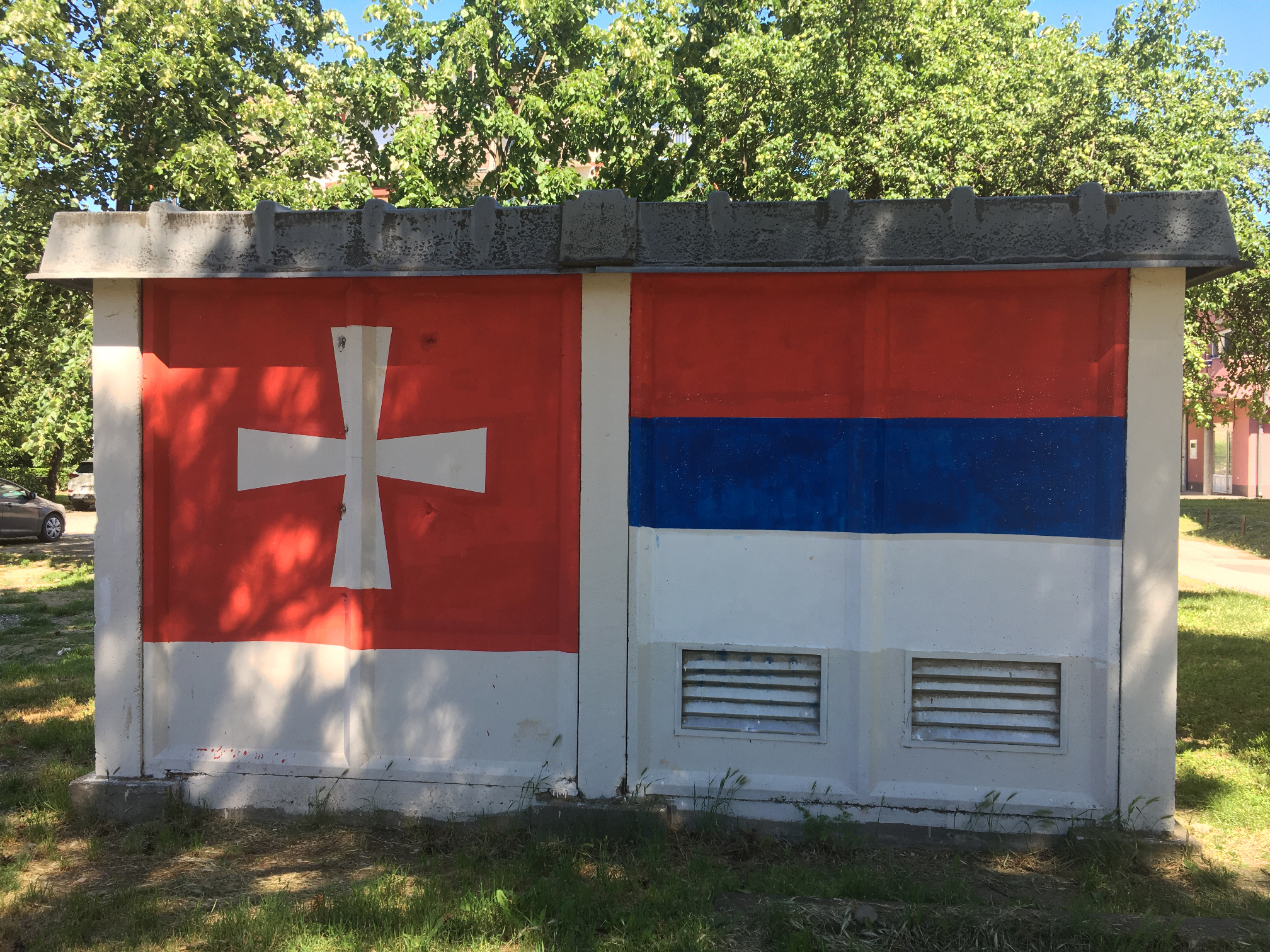 Graffiti in Trstenik made in support with protesting citizens in Montenegro, who were engaged in peaceful protests due to the controversial Church law which attempt to transfer the property from the Serbian Orthodox Church to the state.